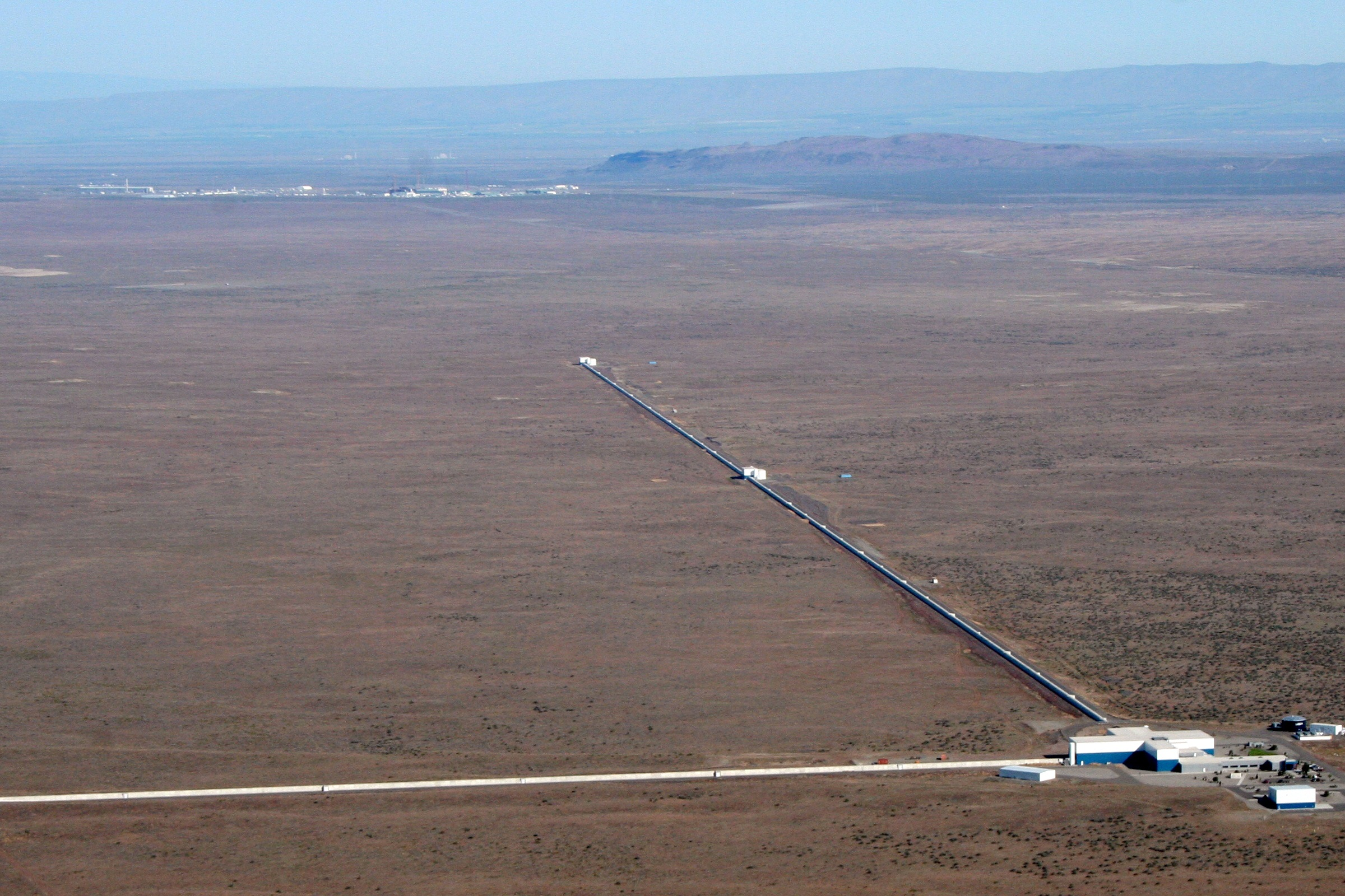 Aerial views of LIGO Hanford Observatory